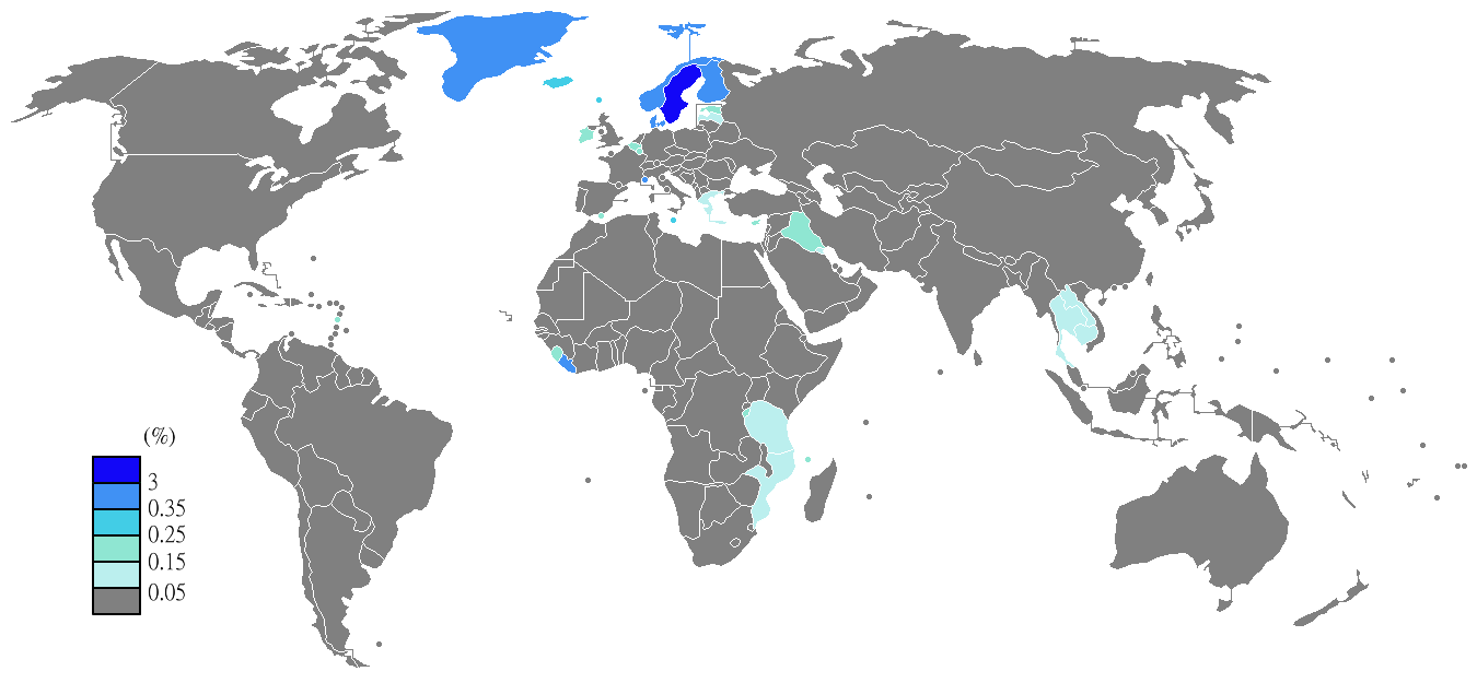 Swedish Wikipedia Page views ratio by country